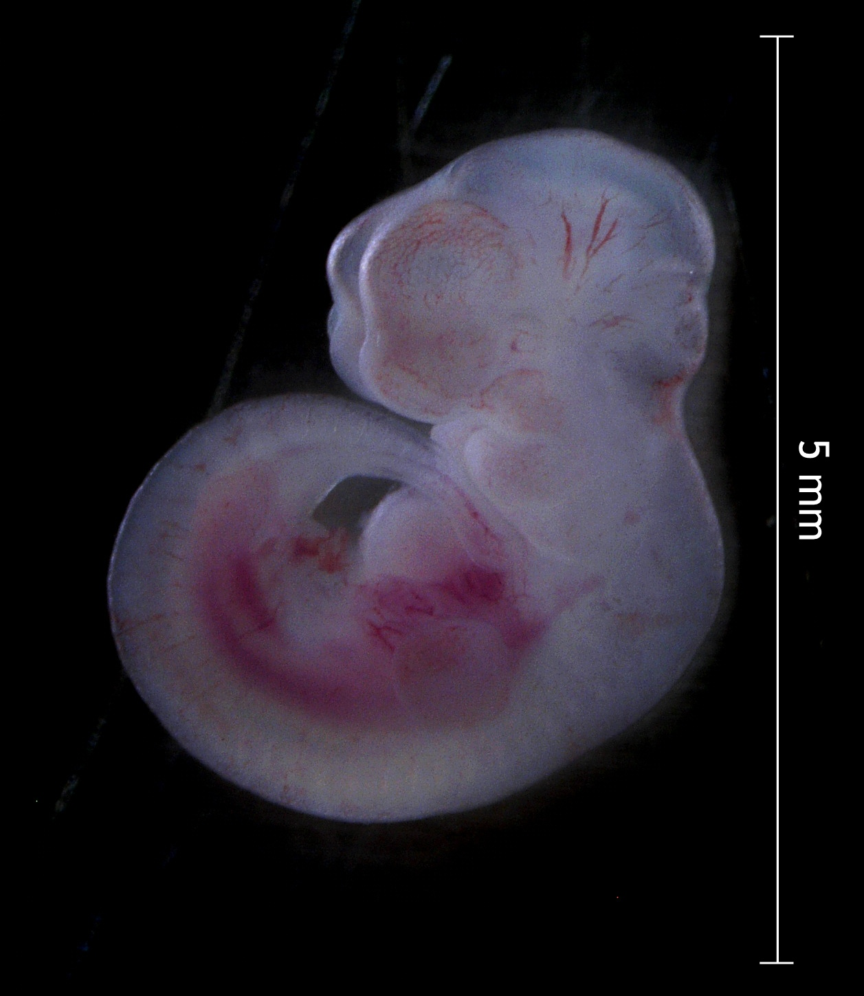 A murine embryo (CD-1), approximately 12.5 days old.